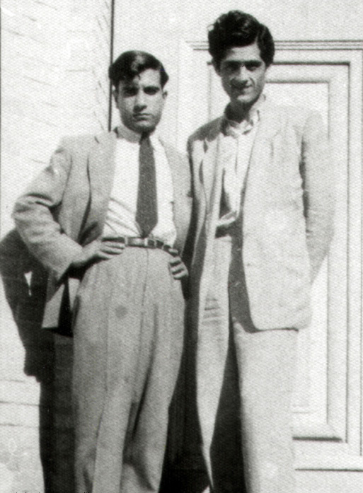 Jalal Al-e-Ahmad